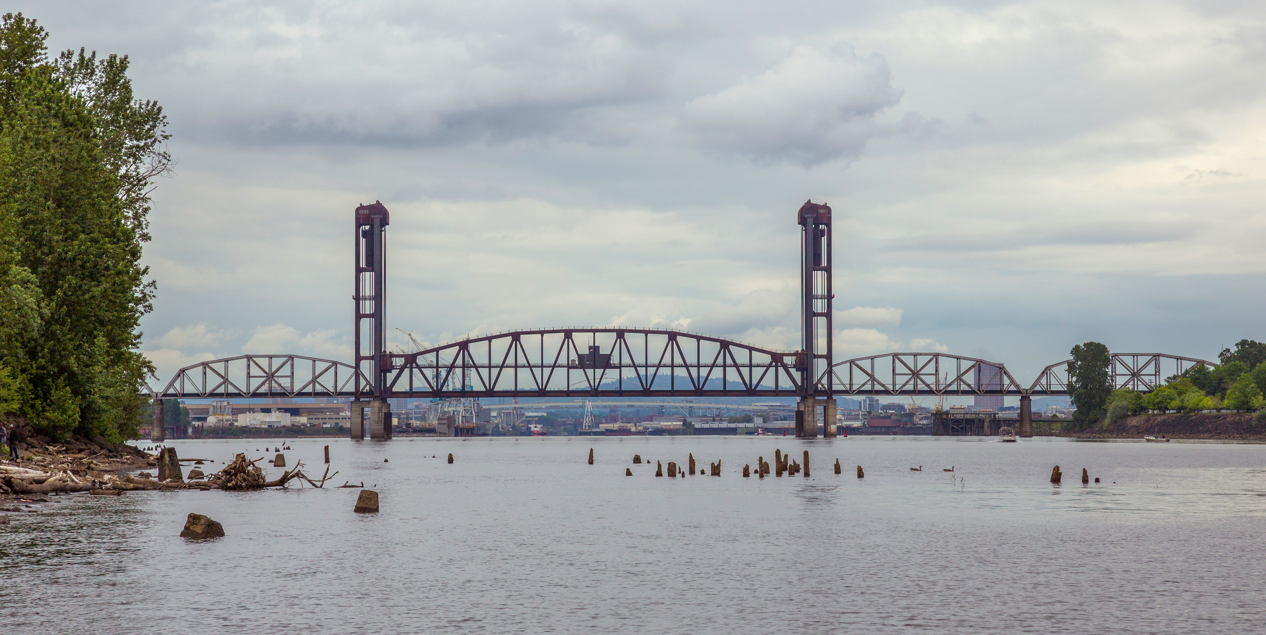 The BNSF Railway Bridge 5.1 on the Willamette River near St. Johns, North Portland, Oregon, viewed from the northwest (from the north riverbank).